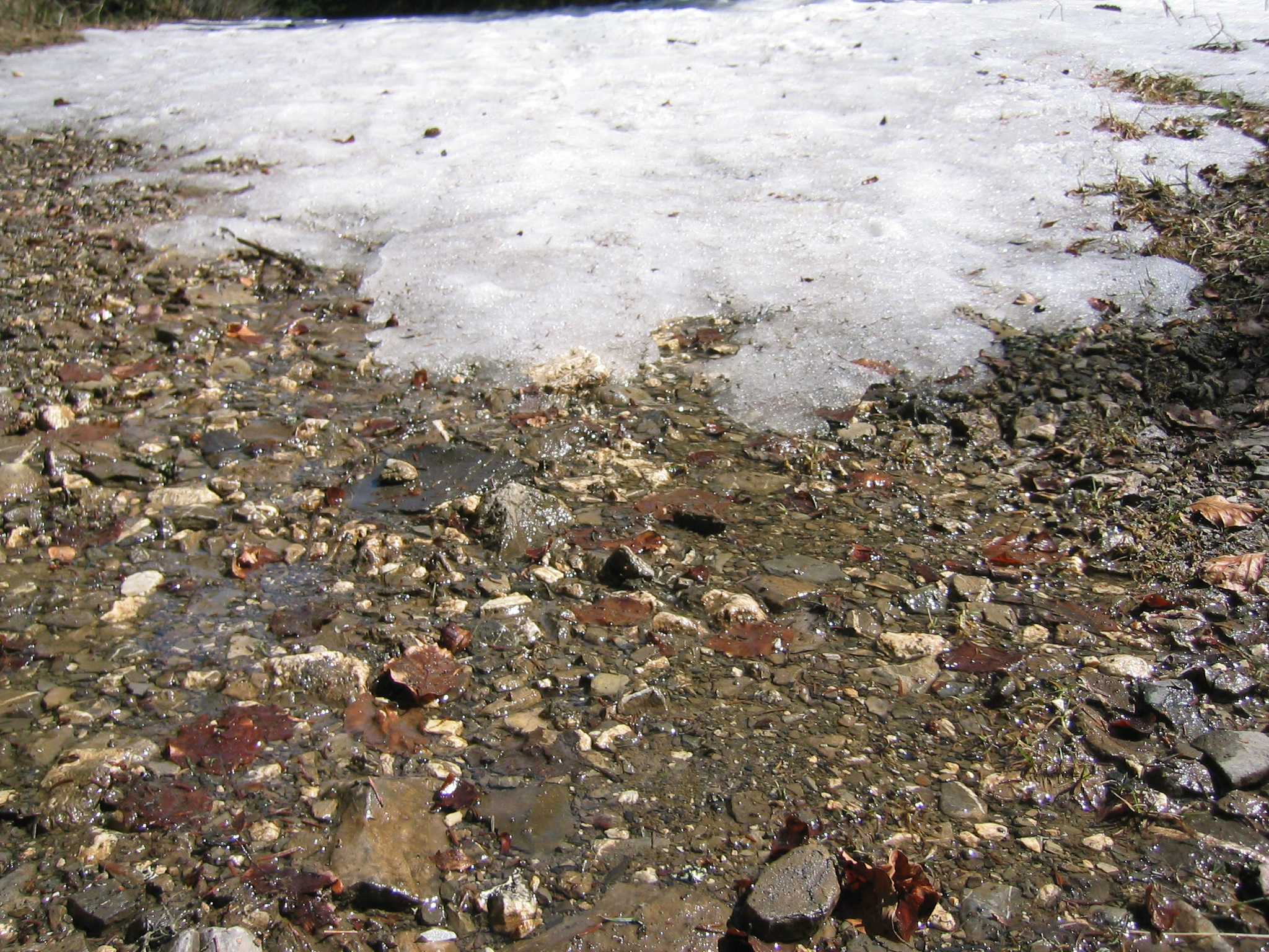 Slush